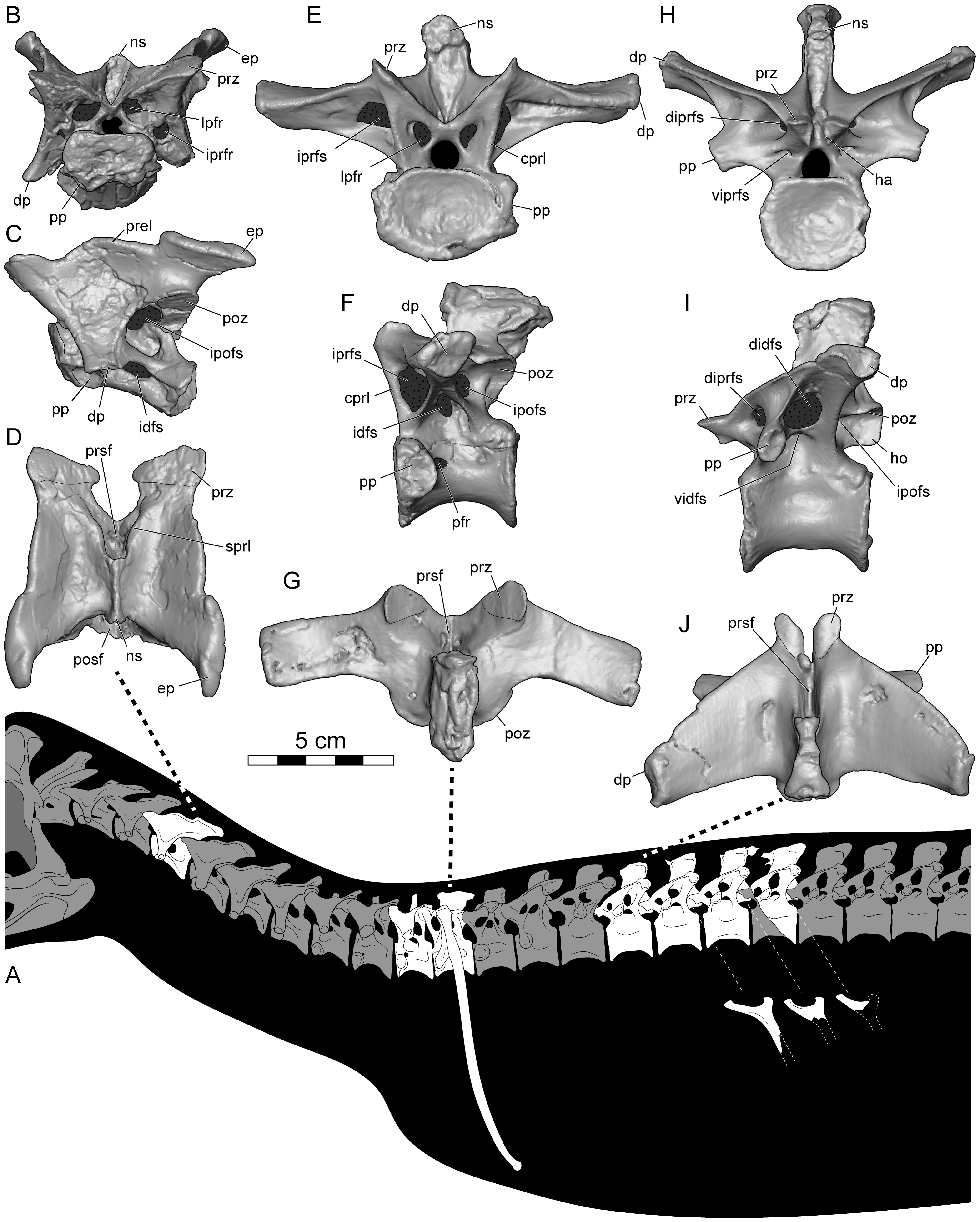 Dahalokely tokana, holotype (UA 9855). A, reconstructed silhouette with preserved elements indicated in white. Cervical vertebra (C?5) in B, cranial; C, left lateral; and D, dorsal views. Dorsal vertebra (D?2) in E, cranial; F, left lateral, and G, dorsal views. Dorsal vertebra (D?6) in H, cranial; I, left lateral; and J, dorsal views. Abbreviations: cprl, centroprezygapophyseal lamina; didfs, dorsal infradiapophyseal fossa; diprfs, dorsal infraprezygapophyseal fossa; dp, diapophysis; ep, epipophysis; ha, hypantrum; ho, hyposphene; idfs, infradiapophyseal fossa; ipofs, infrapostzygapophyseal fossa; iprfr, infraprezygapophyseal foramen; iprfs, infraprezygapophyseal fossa; lpfr, laminopeduncular foramen; ns, neural spine; pfr, pneumatic foramen; posf, postspinal fossa; poz, postzygapophysis; pp, parapophysis; prel, prezygoepipophyseal lamina; prsf, prespinal fossa; prz, prezygapophysis; sprl, spinoprezygapophyseal lamina; vidfs, ventral infradiapophyseal fossa; viprfs, ventral infraprezygapophyseal fossa.